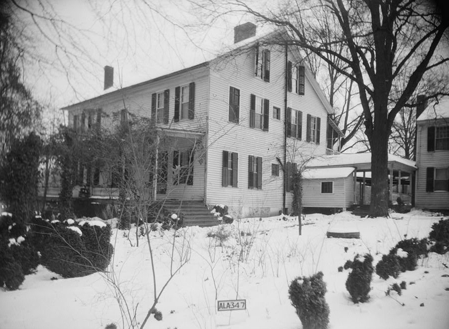 General Joseph Wheeler House (Later House), (Now known as Pond Spring) — State Highway 20, Wheeler, Lawrence County, AL. FRONT (N) AND WEST SIDE (SECOND HOUSE) — Historic American Buildings Survey of Alabama.